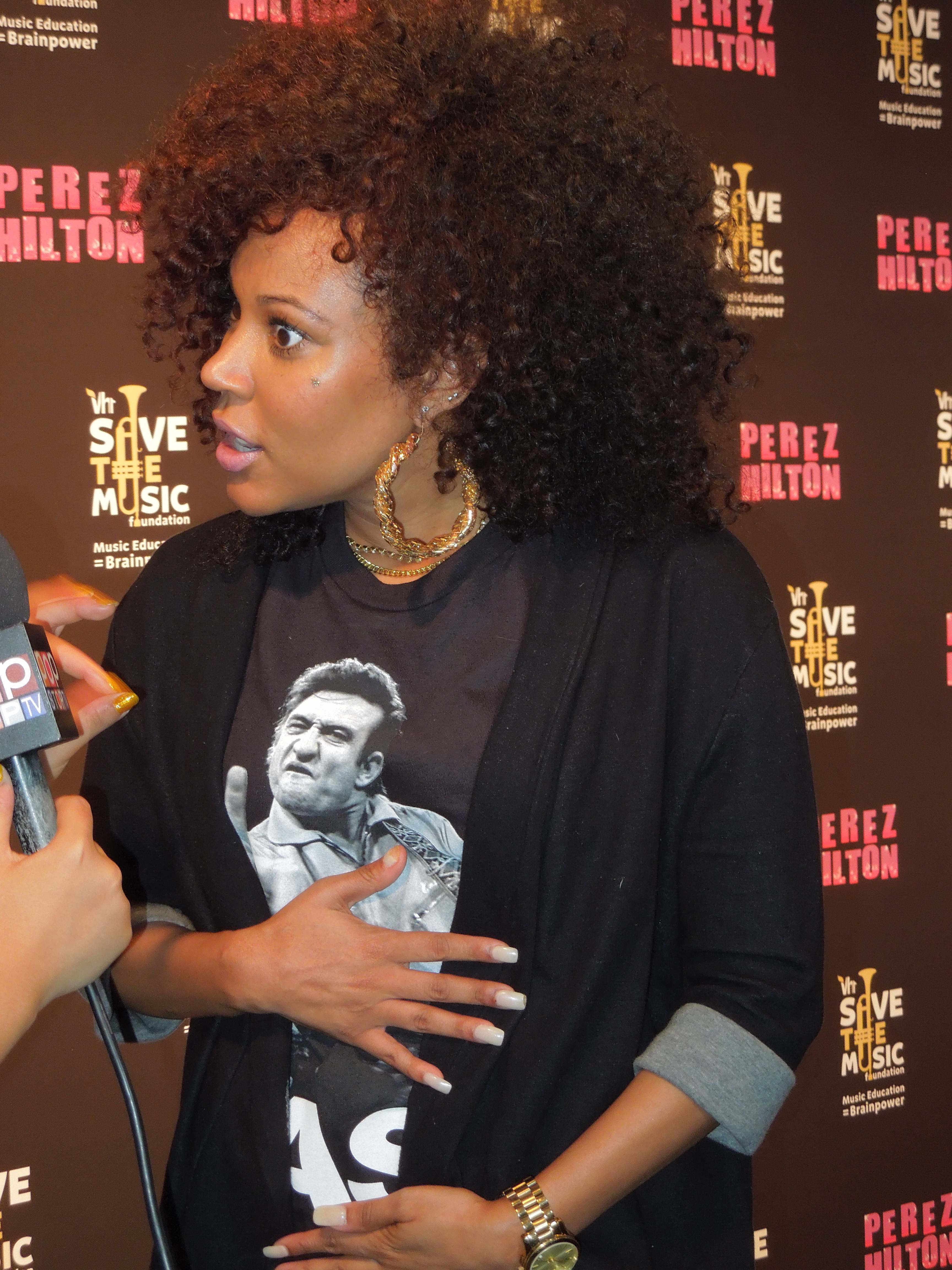 Up-and-coming artist Lyrica Anderson answers the media's questions. (Sarah Mickelson/ Neon Tommy)